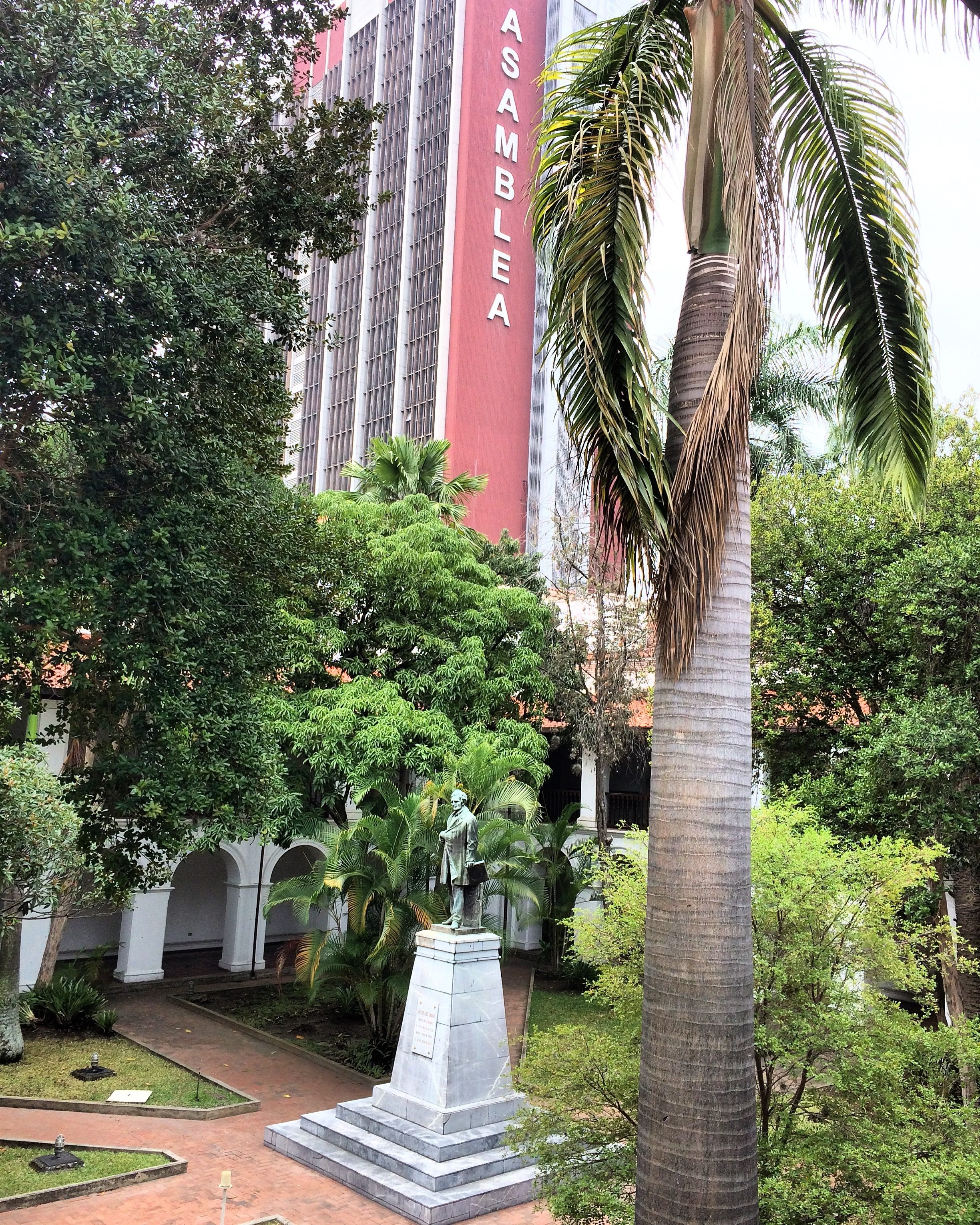 Centro de Caracas